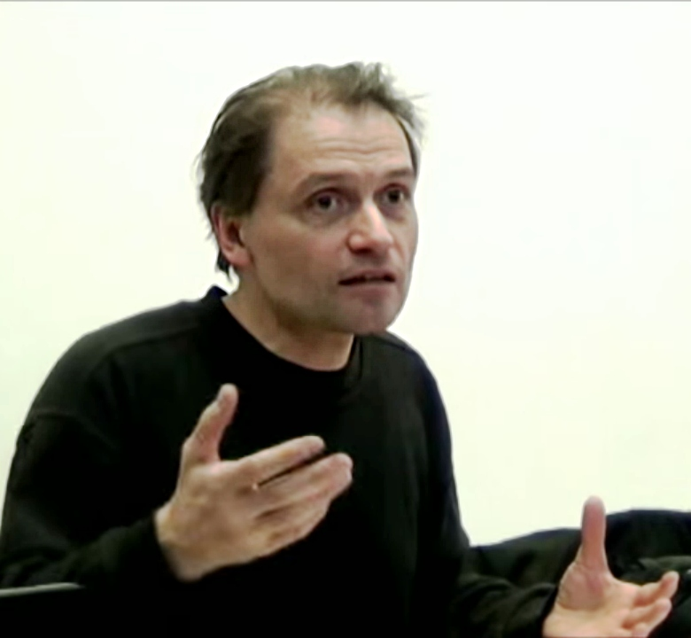 Political scientist Michael Heinrich 2014 in a Zagreb lecture.